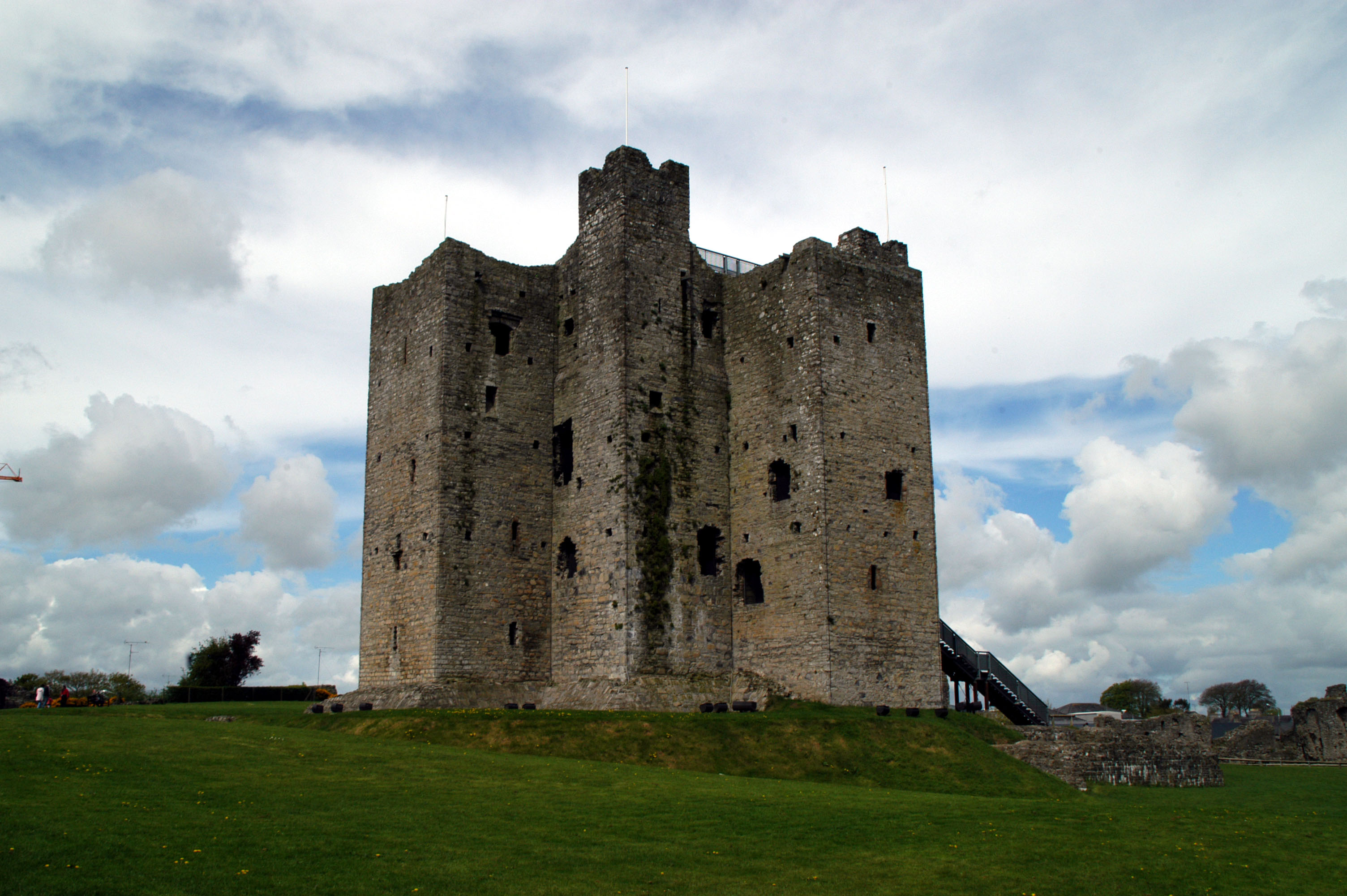 Main keep, Trim Castle, Trim